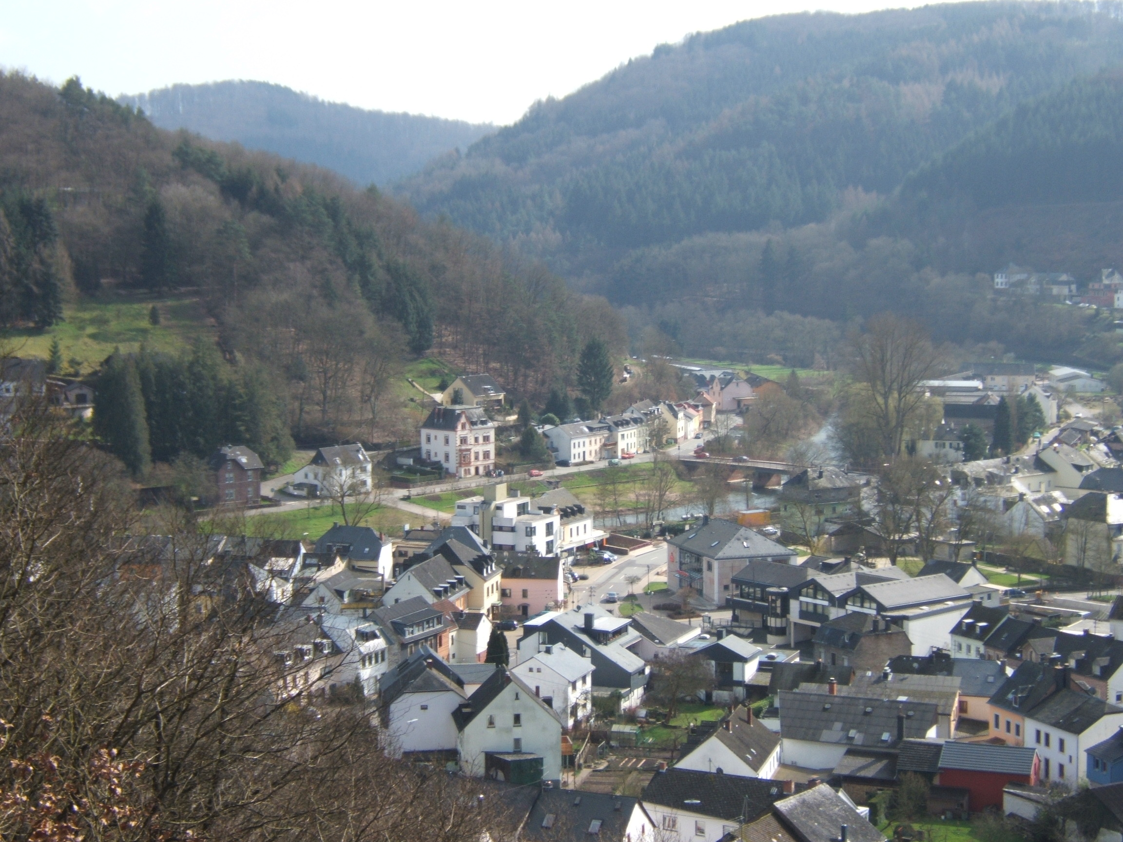 Kordel, a village in the Eifel, Rhineland-Palatinate, Germany